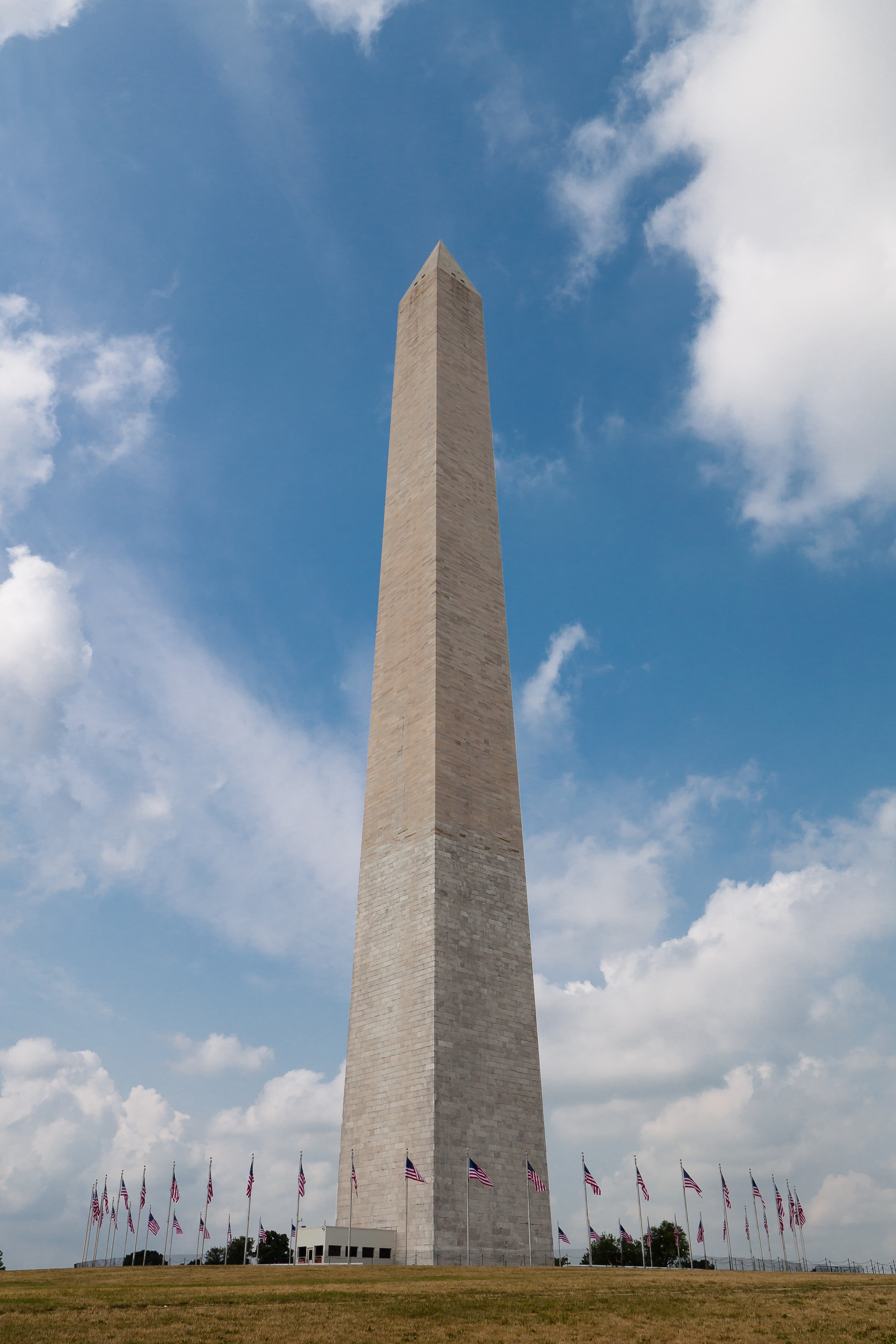 Washington Monument